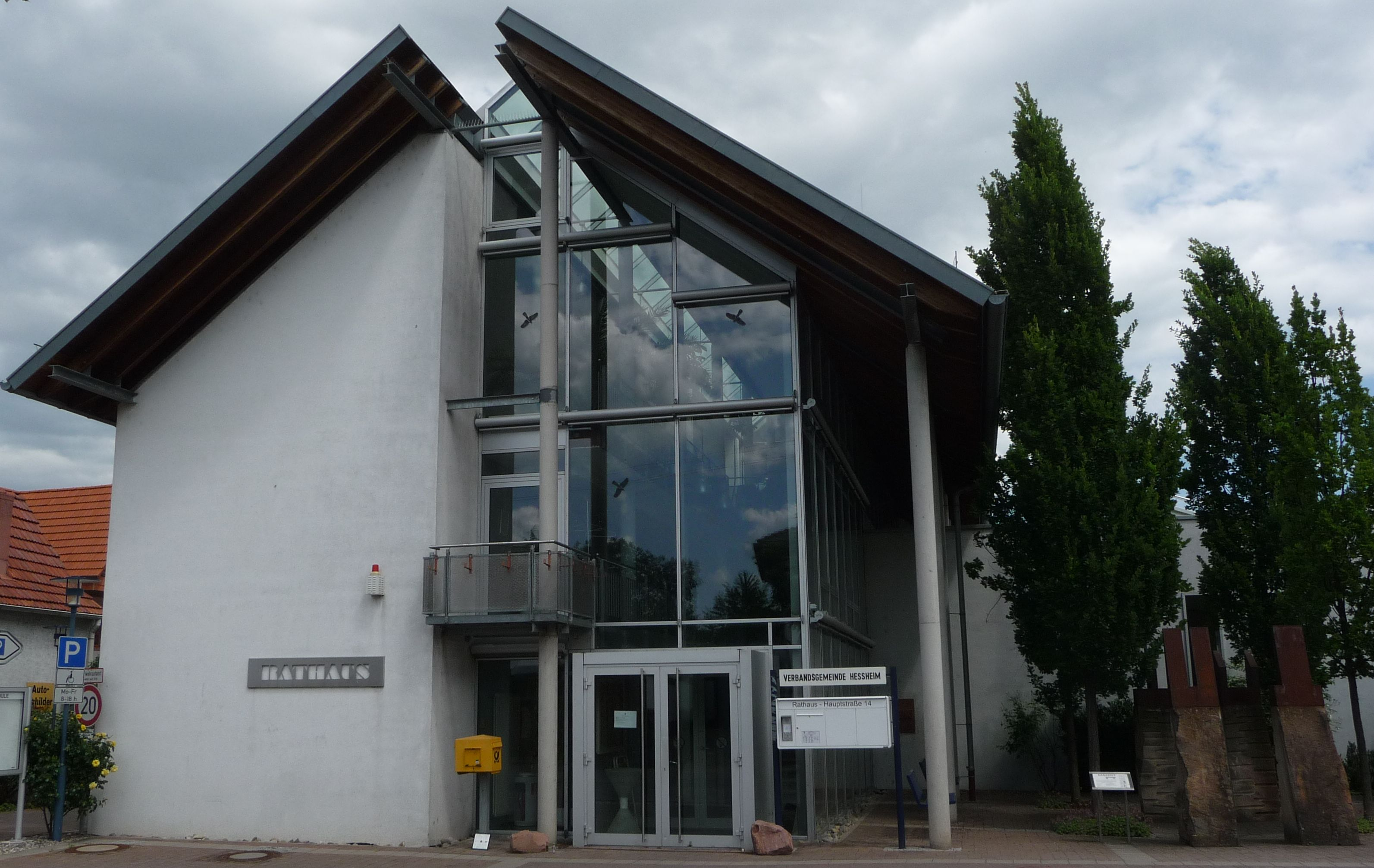 town hall of Heßheim, Germany